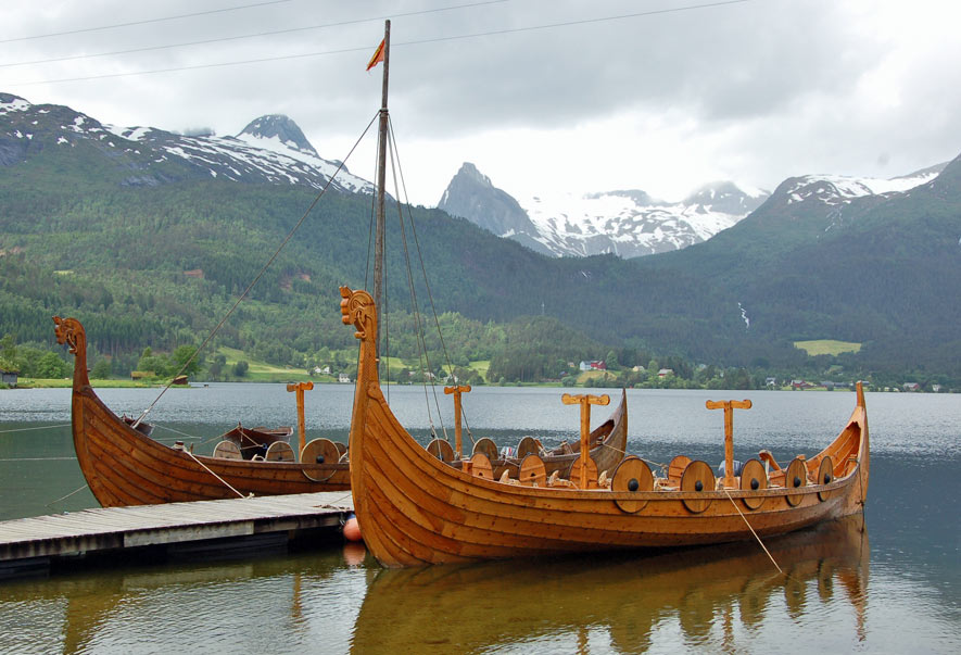 Vikingboats Ask and Birk at Björkedalen in Norway